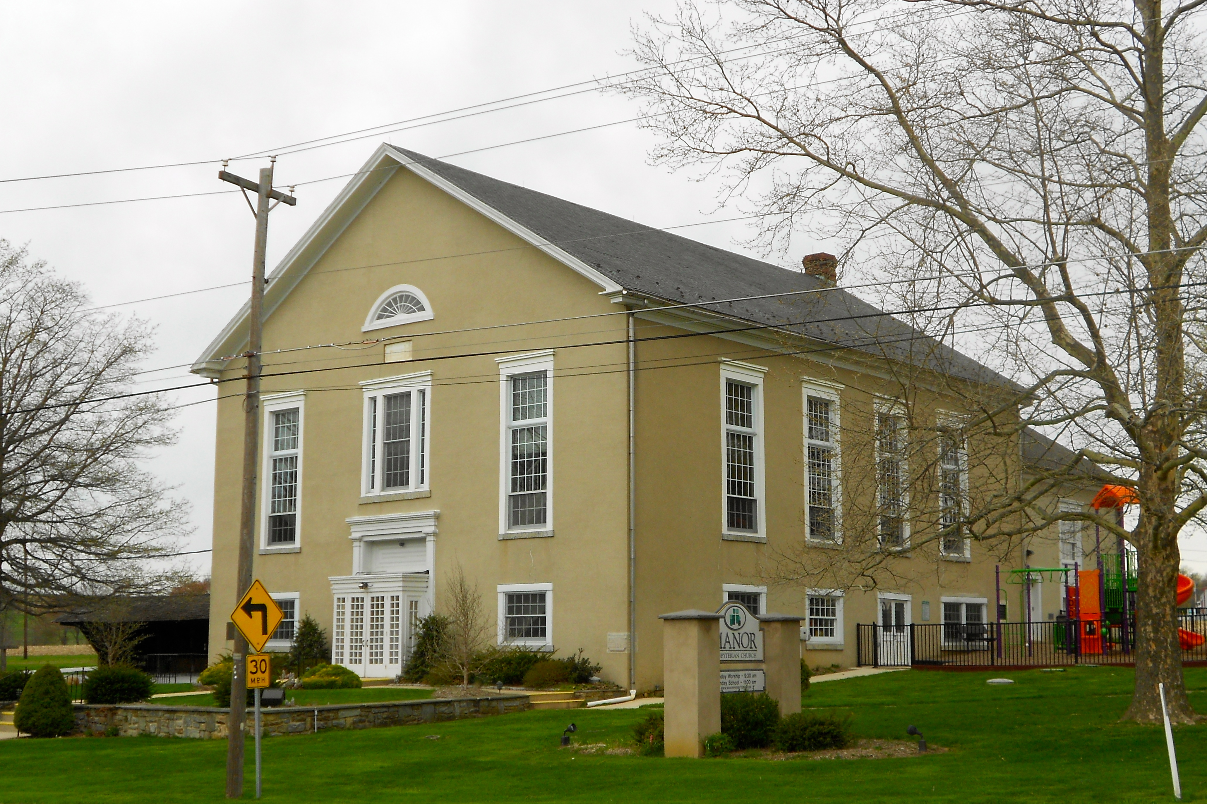 A historic Presbyterian church now known as "The Manor" near Cochranesville, Chester County, Pennsylvania. The church was originally called Faggs Manor, as is the general area. On Faggs Manor Road and Street Road.